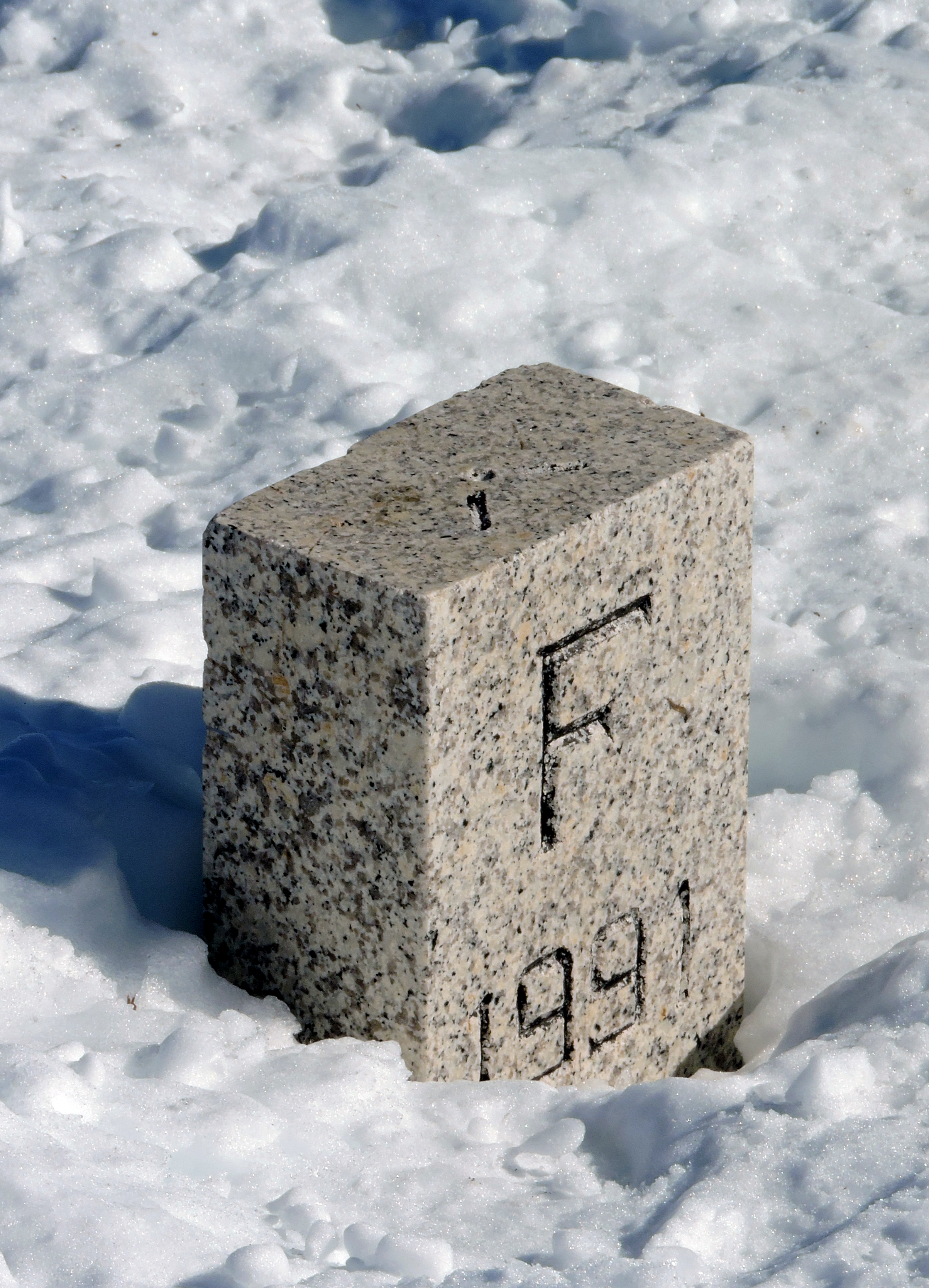 Boundary marker on the Cima Saurel (Cottian Alp)